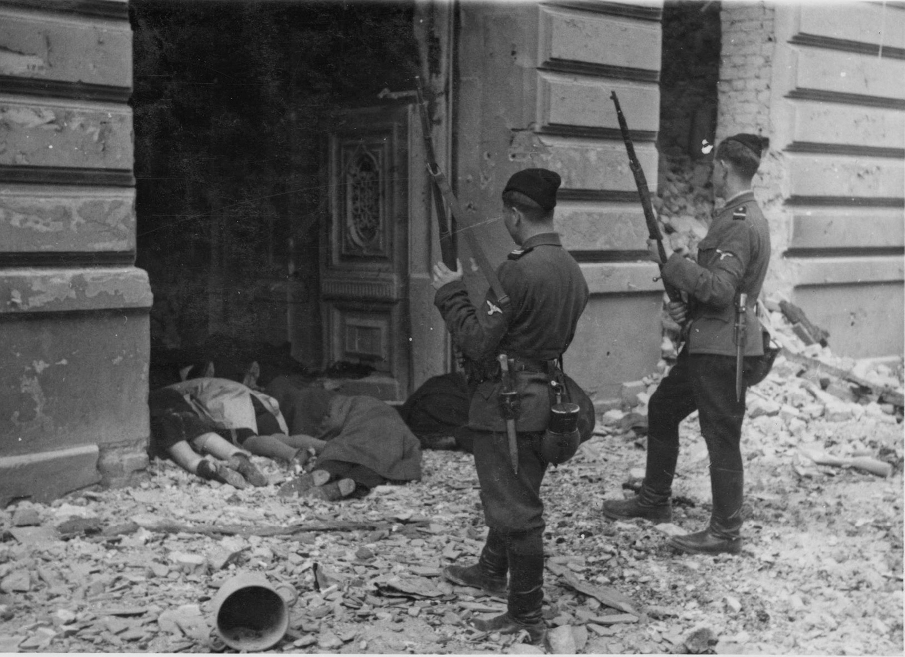 Two "Askaris" or "Trawnikis" as representatives of the so-called "foreign subsidiary ethnic divisions" SS before the corpses of Jews in the doorway of the Warsaw Ghetto. The unit trained in village of Trawniki was made up of Ukrainians, Russians, Belorussians, Poles, Estonians, Lithuanians, Latvians, ethnic Germans, Kazakhs and Tartars.